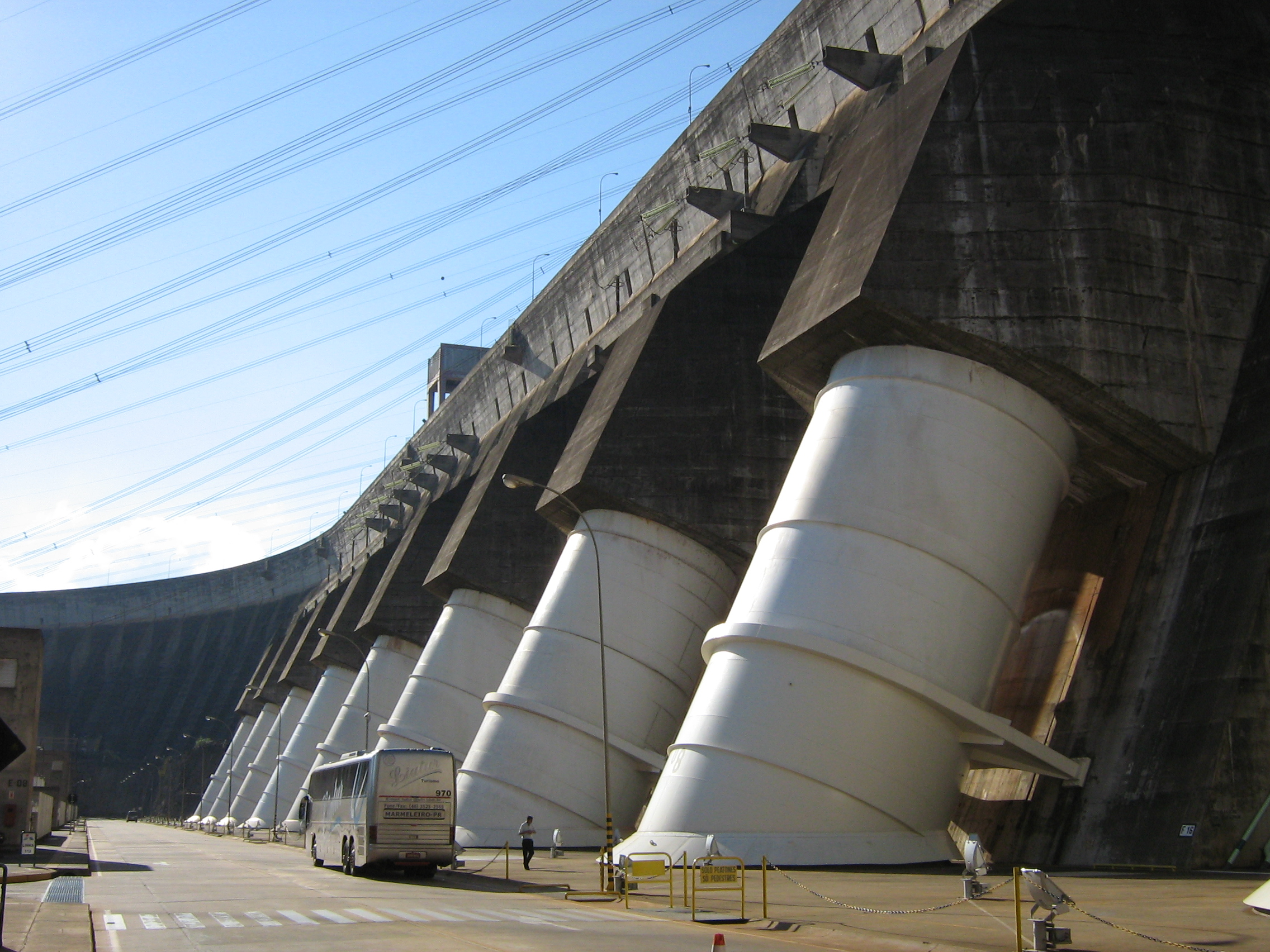 Some of the 20 tubes leading water to the turbines at Itaipú dam (hydroelectric power plant) on Paraná river, Brazil/Paraguay